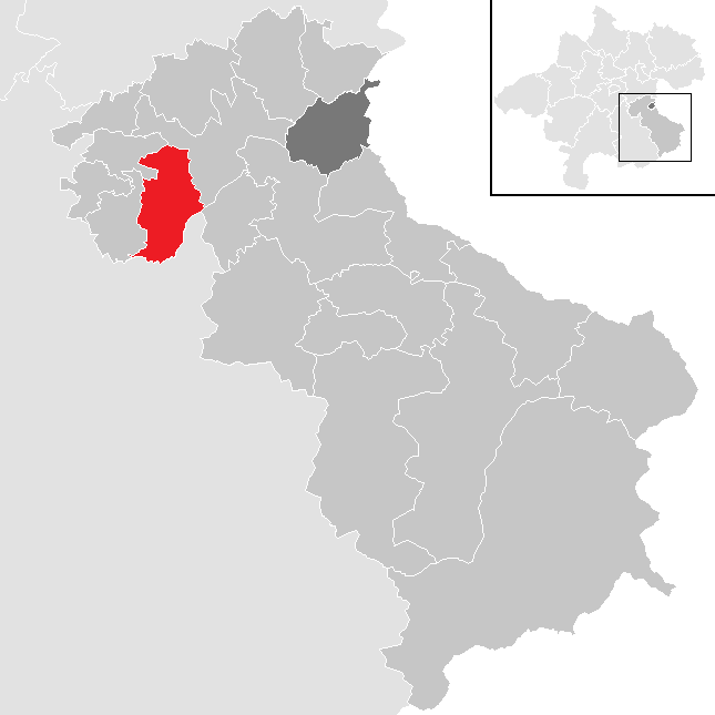 district Steyr-Land